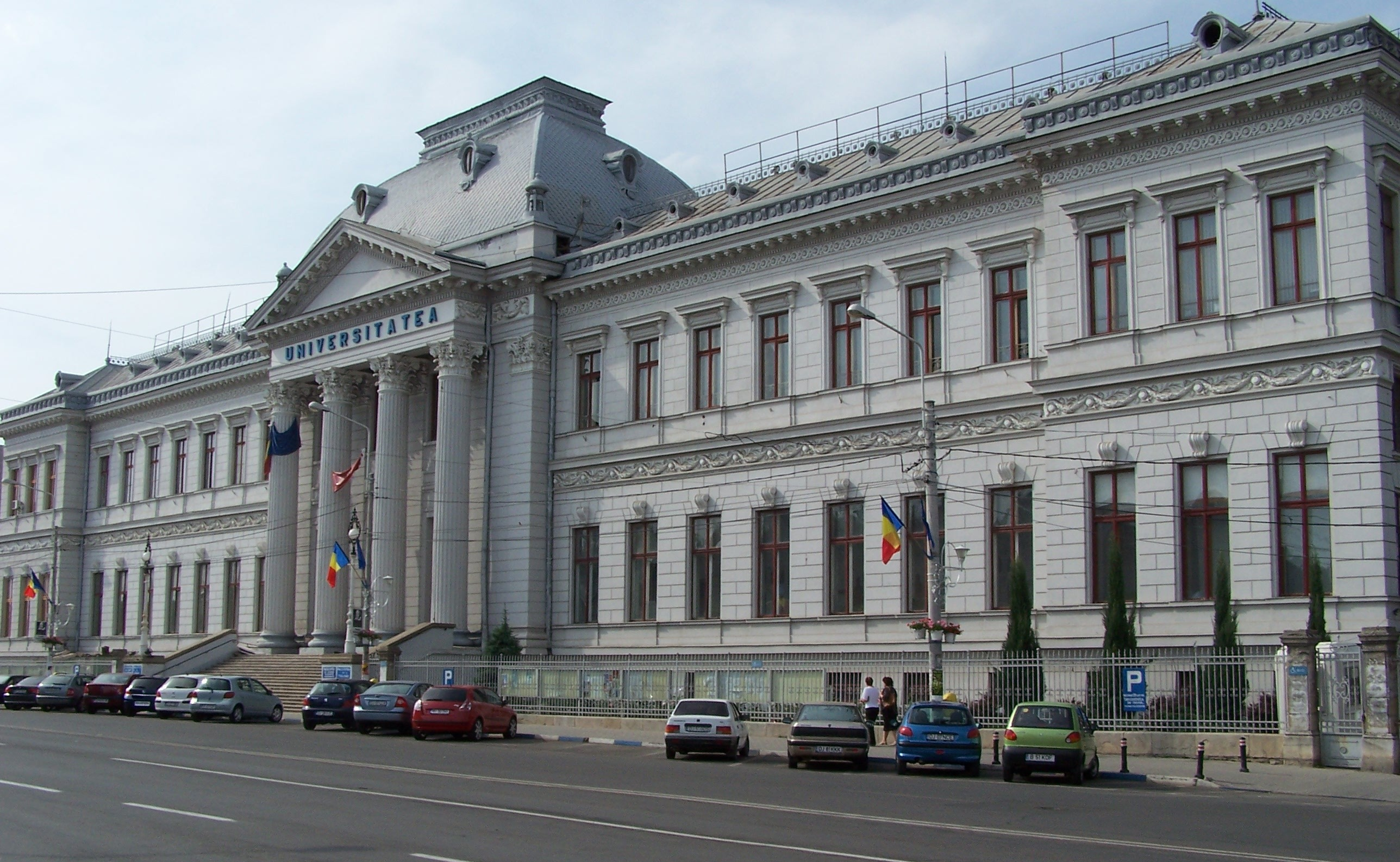 Craiova: University Main Building, former Palace of Justice, Ion Socolescu, 1890